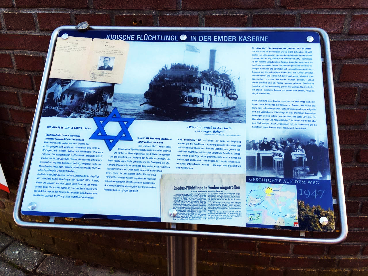 EMDEN-1A